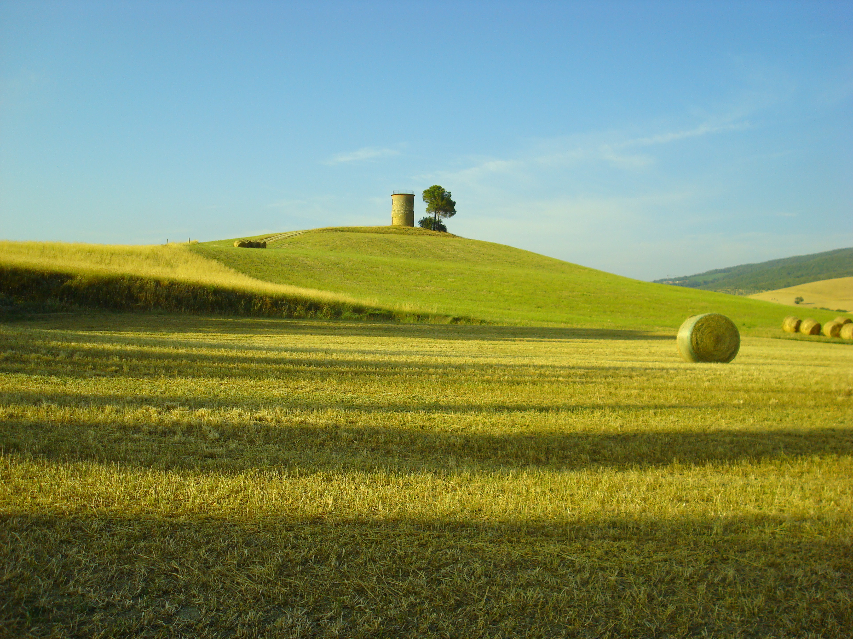 ond windmil named Il Cardellino, in Bibbona